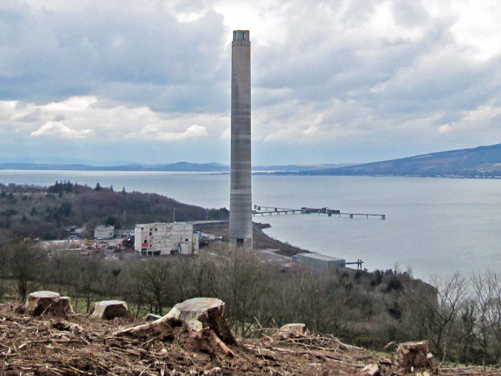 Inverkip power station from Berfern plantation, Inverkip, with demolition work in progress.